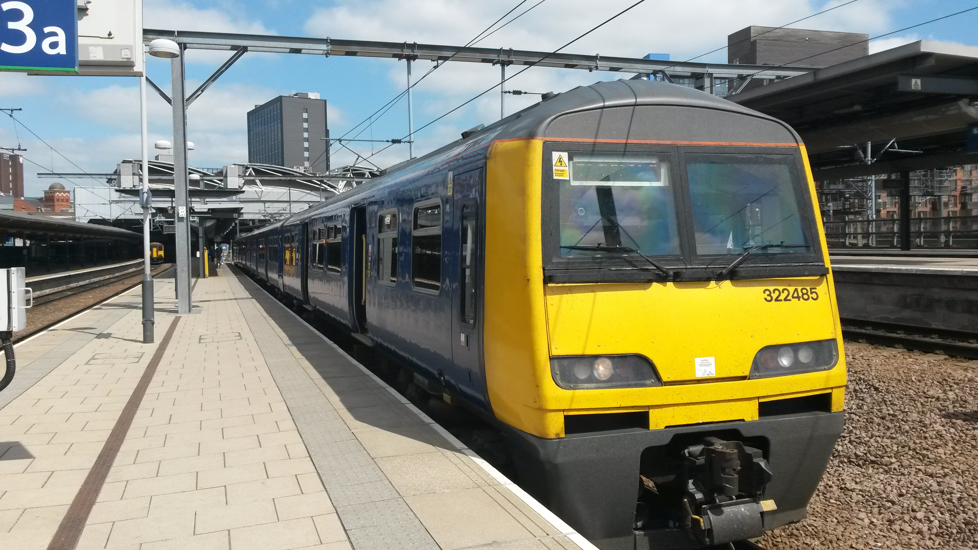 Northern Rail class 322 EMU 322485 at Leeds platform 3A with a service to Bradford Foster Square.